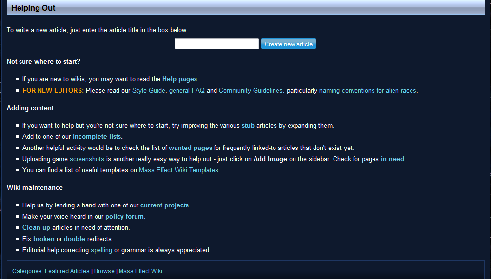 Part of the main page of Mass Effect Wiki. The illustration is to show the collaborative nature of a Wiki for the Web 2.0 article, whilst not running afoul of WP:NAVEL.